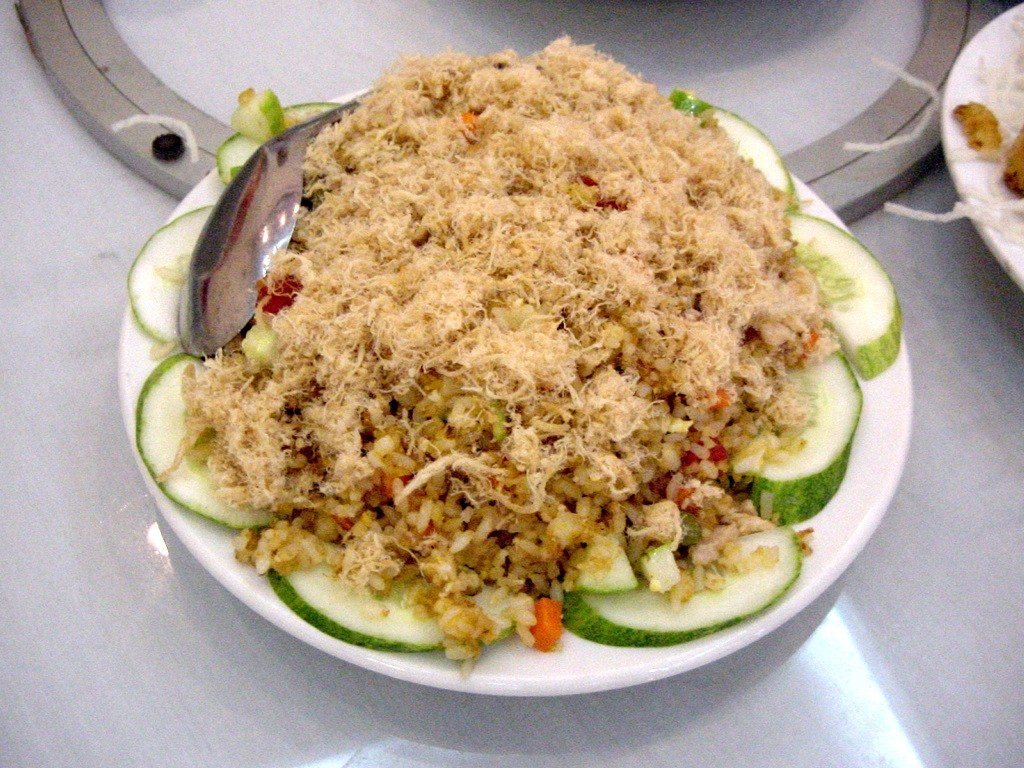 Vietnamese fried rice with pork rousong topping